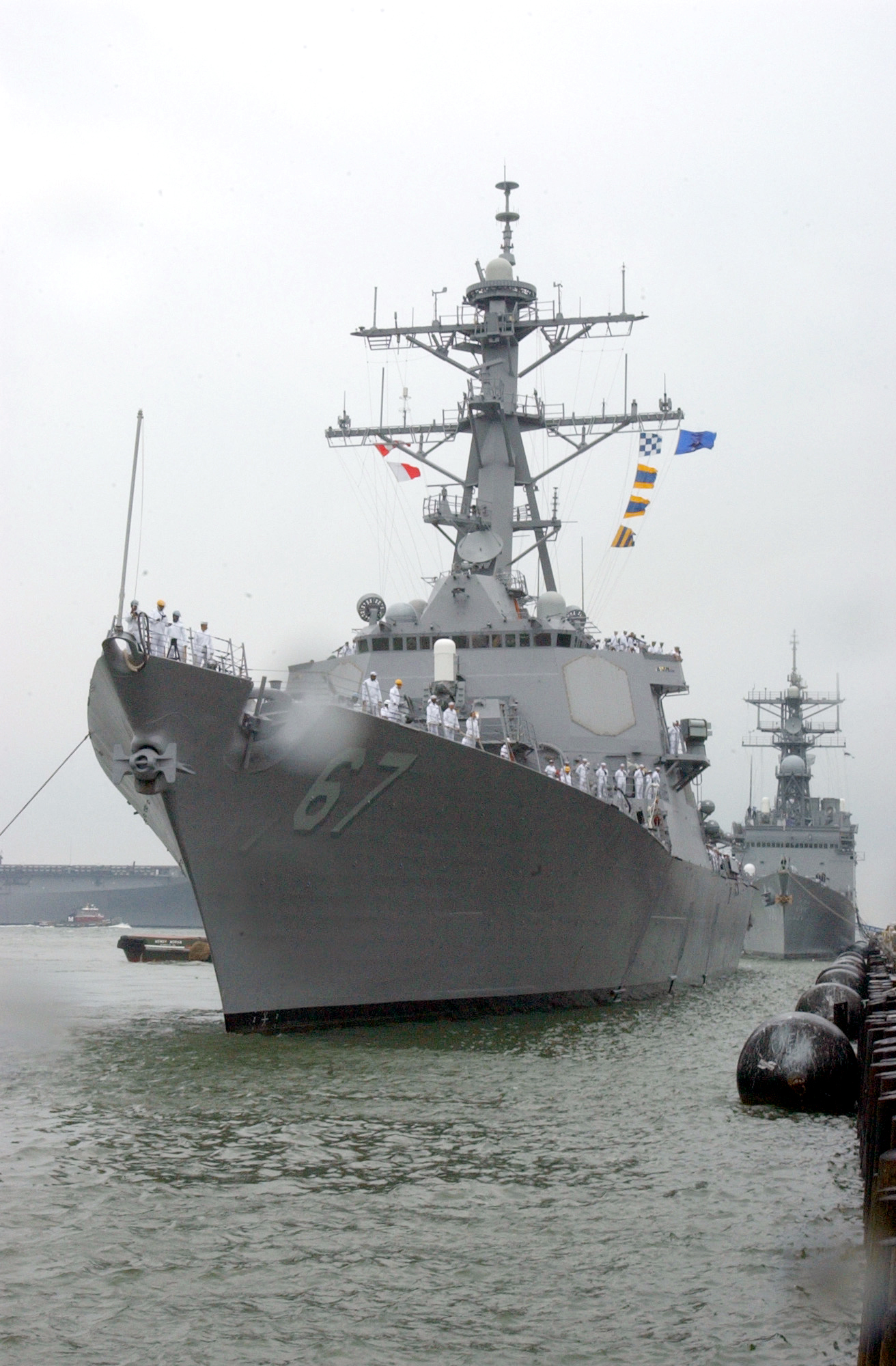 Norfolk Naval Station, VA. (Apr. 25, 2002) -- Rain and wind did not dampen the spirits of crewmembers who “Man the Rail” as the U.S. Navy destroyer USS Cole (DDG 67) returns to her homeport. The Cole has been at the Northrop Grumman Ship System facility in Pascagoula, MS., for the past 14 months undergoing repairs after a terrorist bomb blew a hole in her port side while refueling in the port city of Aden, Yemen, killing 17 sailors. U.S. Navy photo by Photographer’s Mate 1st Class Tina M. Ackerman. (RELEASED)